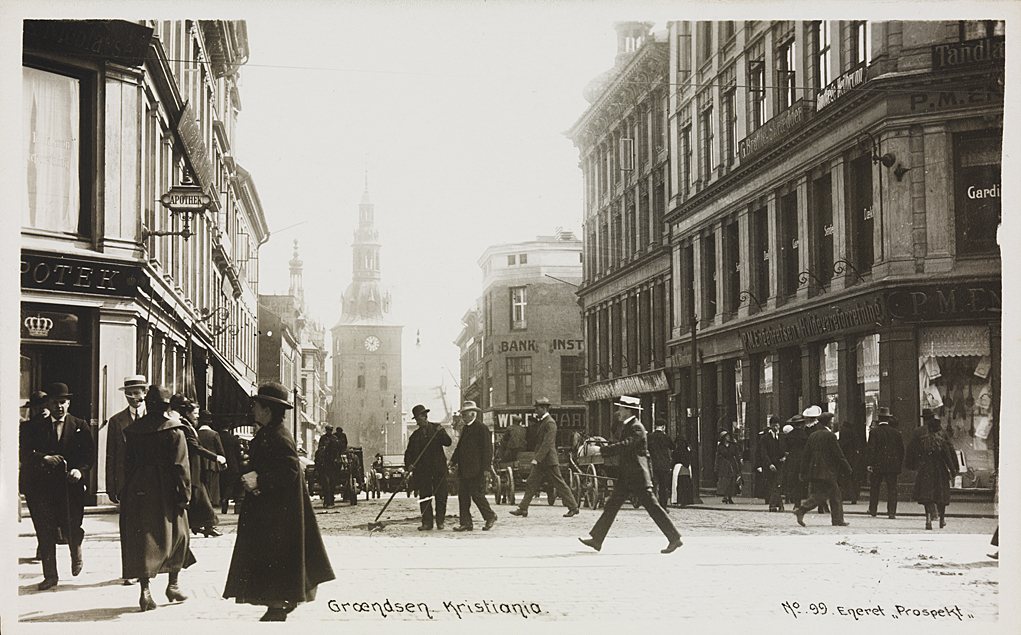 Tittel / Title: 99. Grændsen. Kristiania. Motiv / Motif: Postkort. Dato / Date: ca 1924 Fotograf / Photographer: ukjent / unknown Utgiver / Publisher: Prospekt Sted / Place: Oslo, Grensen Eier / Owner Institution: Nasjonalbiblioteket / National Library of Norway Lenke / Link: Bildesignatur / Image Number: bldsa_PK00468